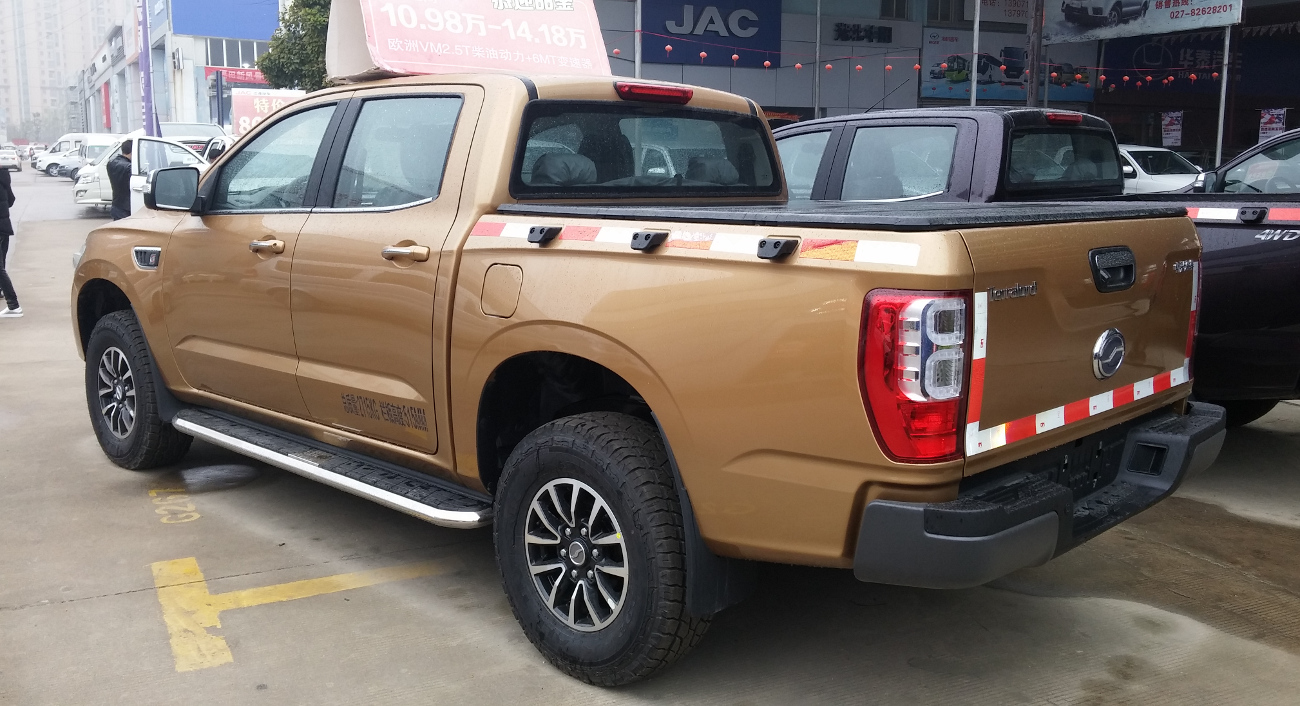 Zhongxing Terralord photographed in Wuhan, Hubei province, China.